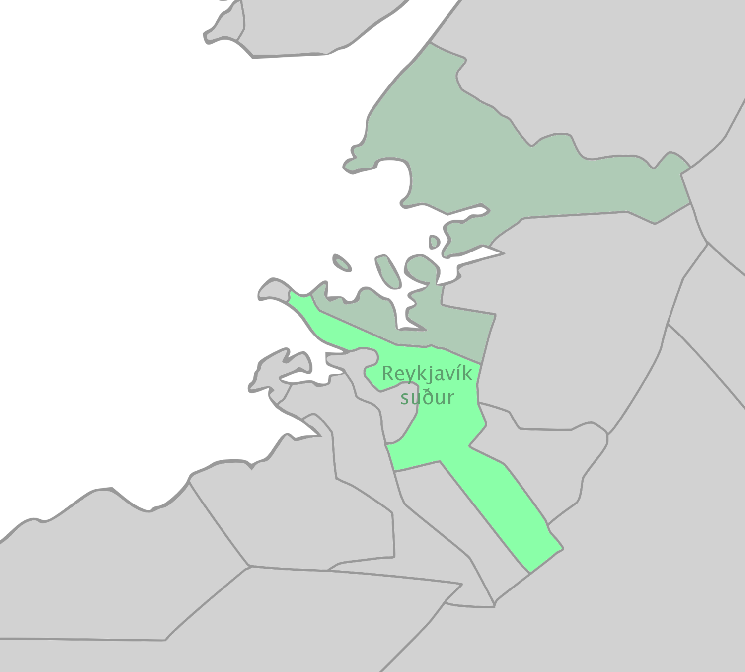 A map of the Reykjavík South electoral district in Iceland.